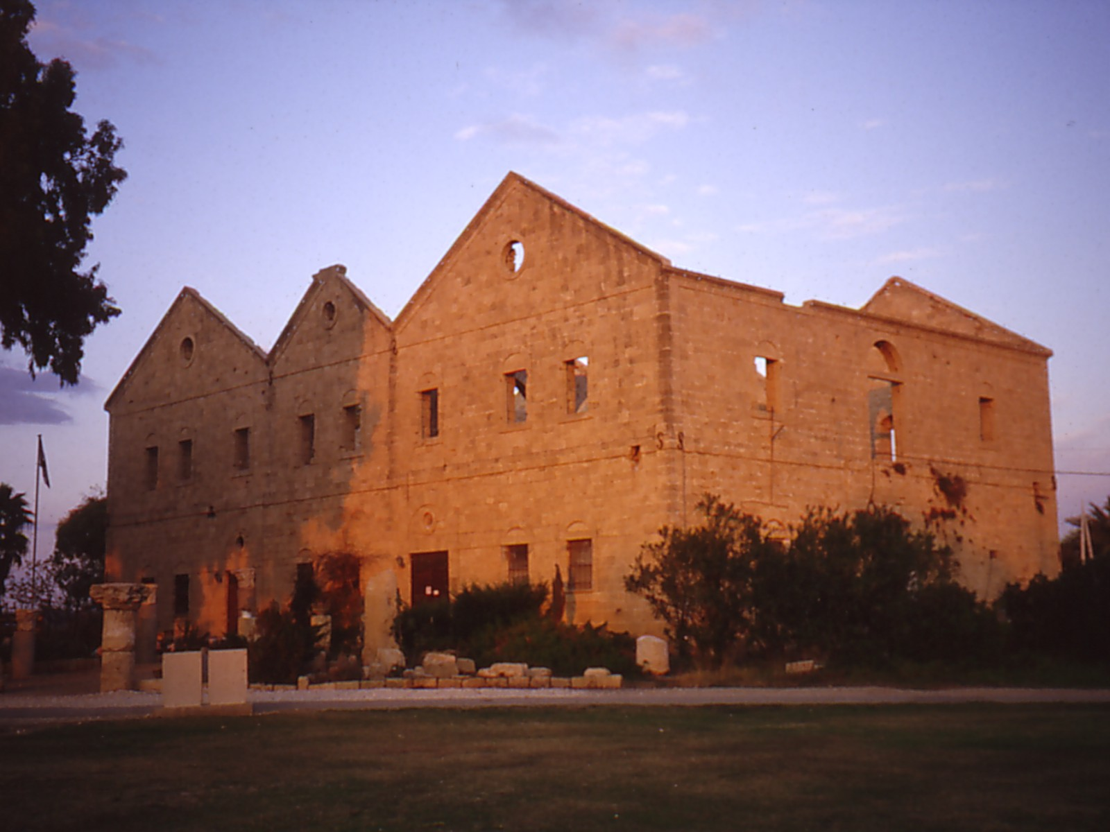 Former glass factory at Nahsholim